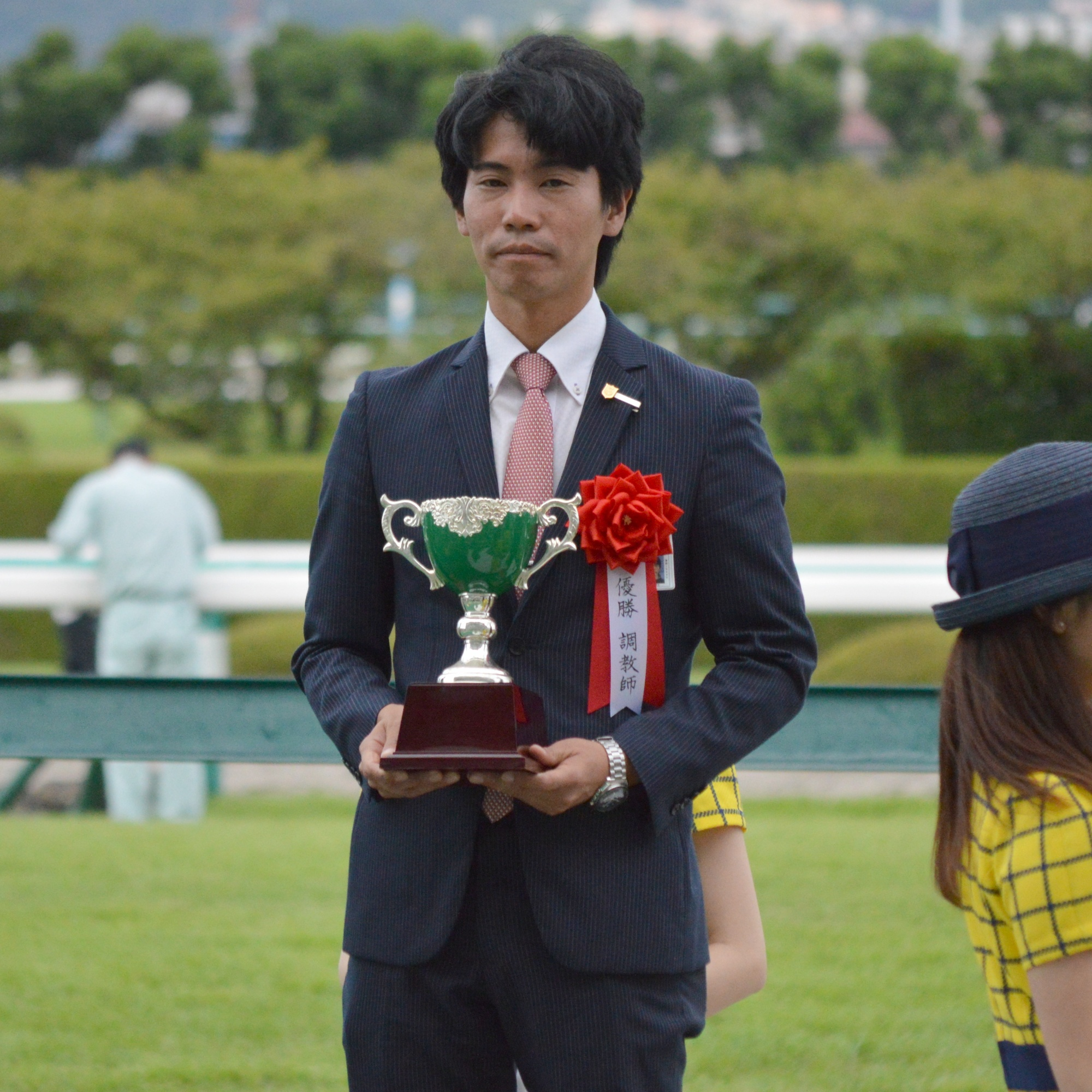 松下武士調教師/2015年9月19日阪神JS表彰式 Takeshi Matsushita Trainer at the 2015 Hanshin Jump Stakes awards ceremony.